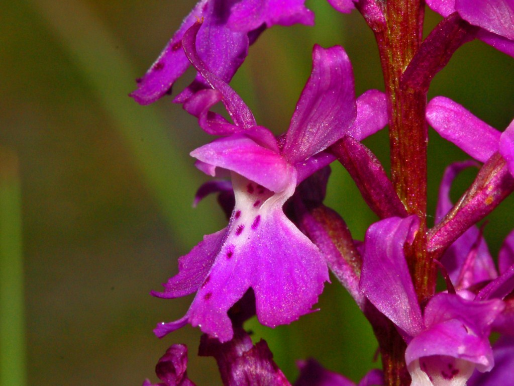 Orchis mascula - Parco dell'Antola, Genova, Italy